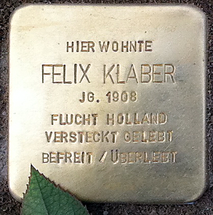 Stolperstein - Stumbling Stone in Nettetal, NRW, Germany Felix Klaber